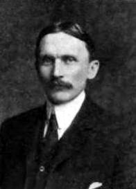 Portrait of New York assemblyman H. Wallace Knapp.